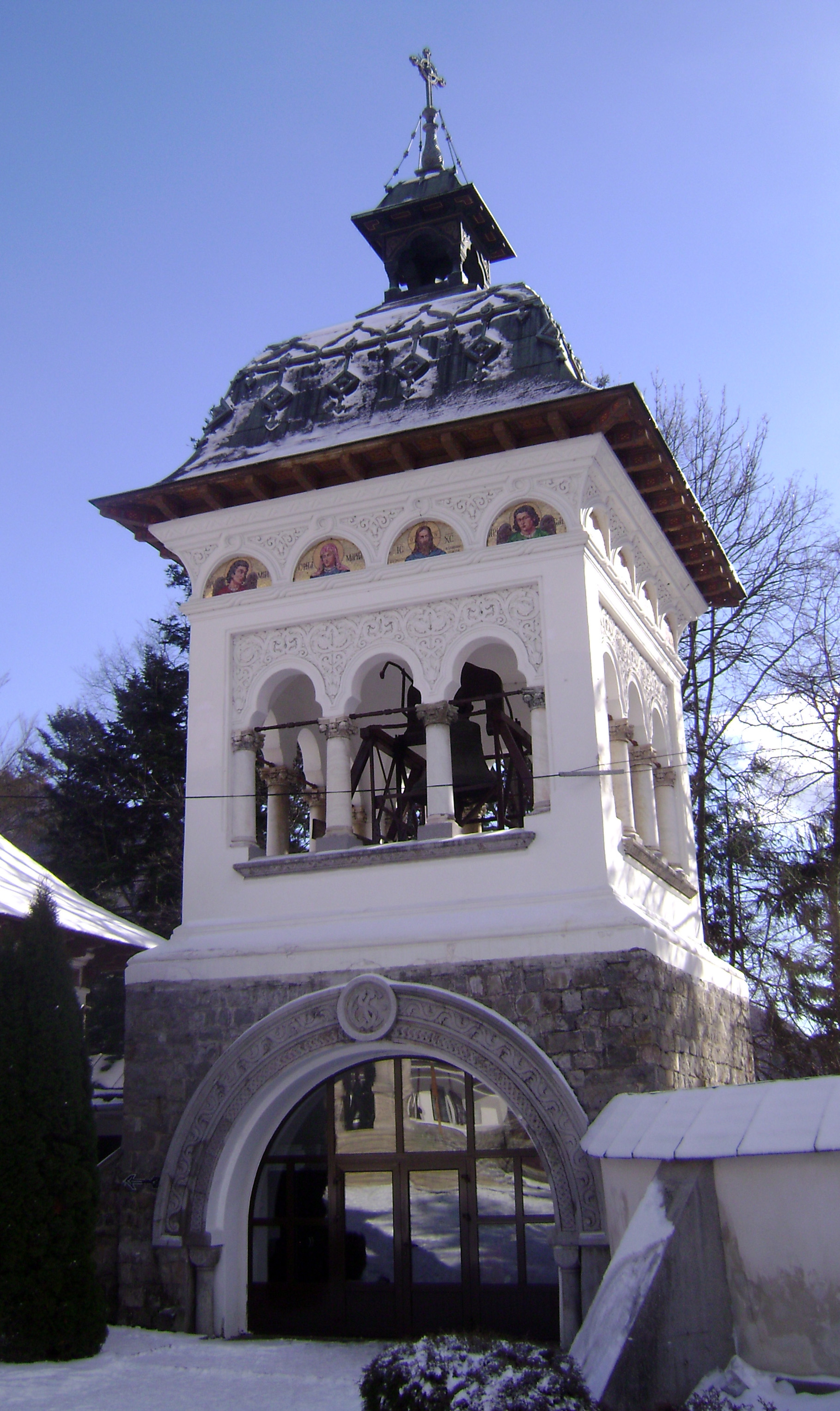 a bell tower at the Sinaia Monastery, Romania